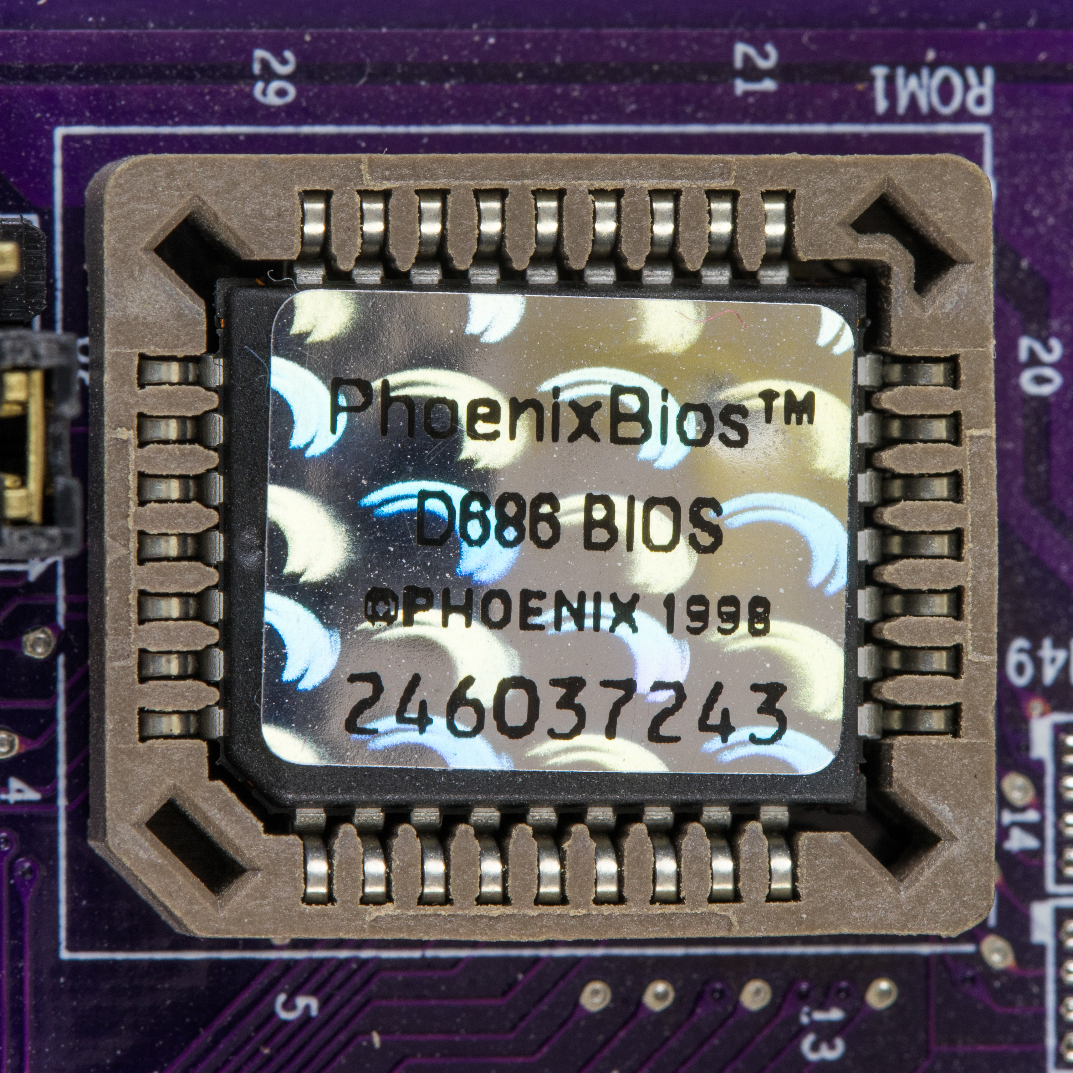 Elitegroup 755-A2 - Phoenix Bios D686